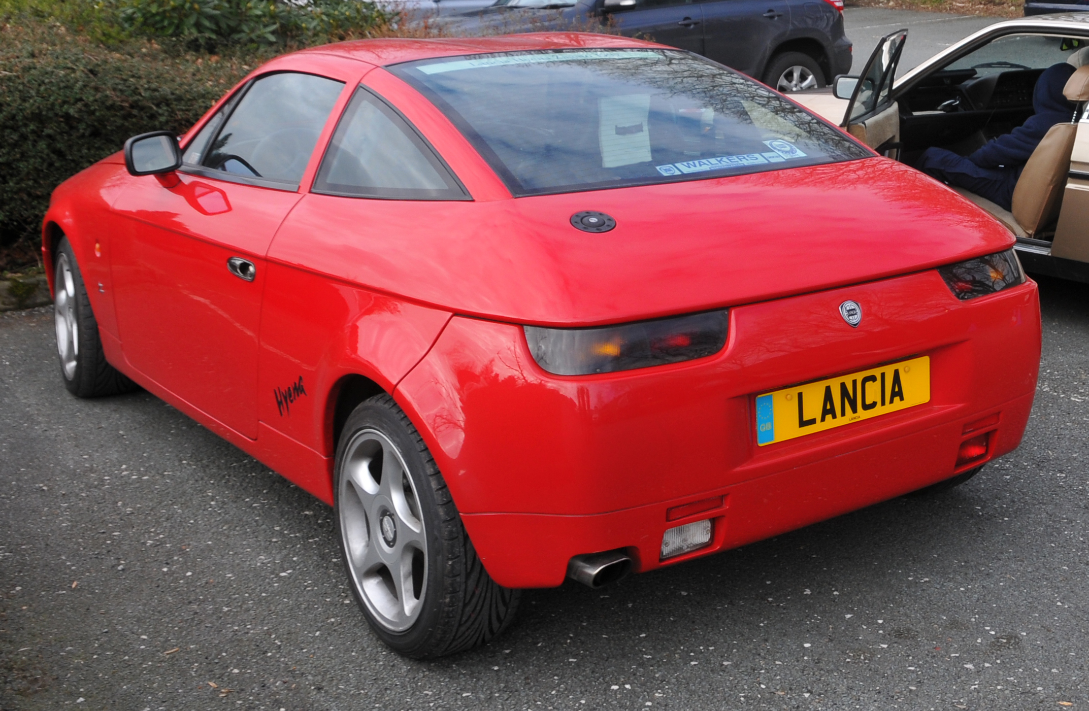 Lancia Zagato Hyena in the Lake District March 2011